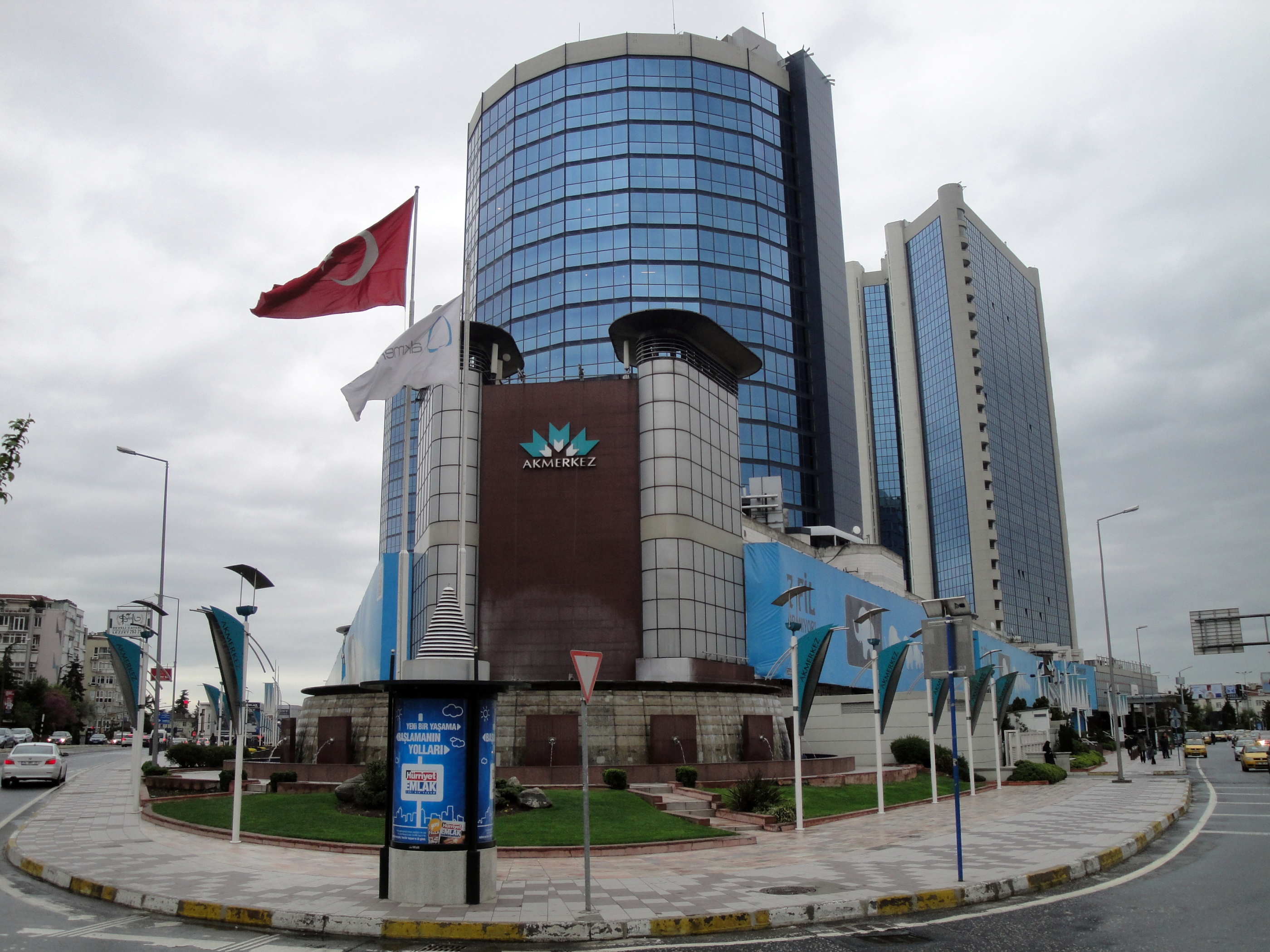 Akmerkez, Istanbuk